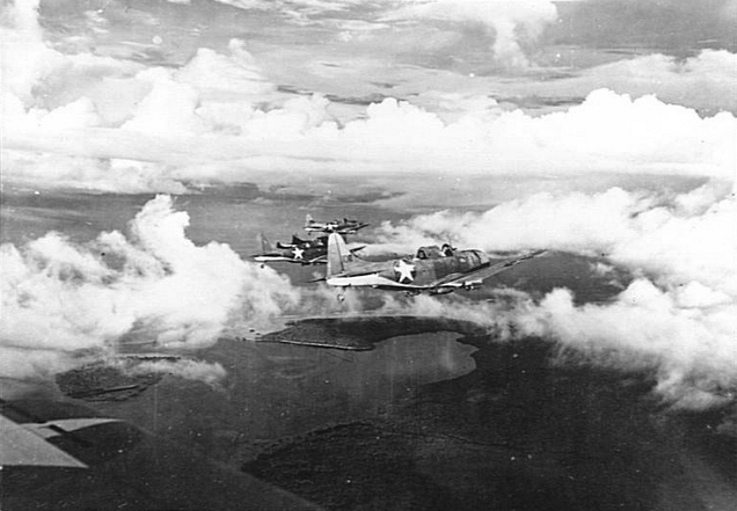 Four U.S. Douglas SBD Dauntless aircraft in flight over Choiseul Bay, Choiseul (Lauru) Island, Solomon Islands, during an attack on a Japanese transit base. In the rear seat of the aircraft closest to the camera was Sub-Lieutenant Alexander Nicol Anton Waddell, Royal Australian Naval Volunteer Reserve (RANVR), who had been a coastwatcher on the island since October 1942. He was now guiding the aircraft in strikes over the Bay.